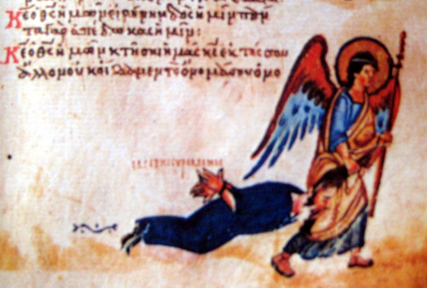 an angel draging a sinner-iconoclast by the hair. Chludov Psalter